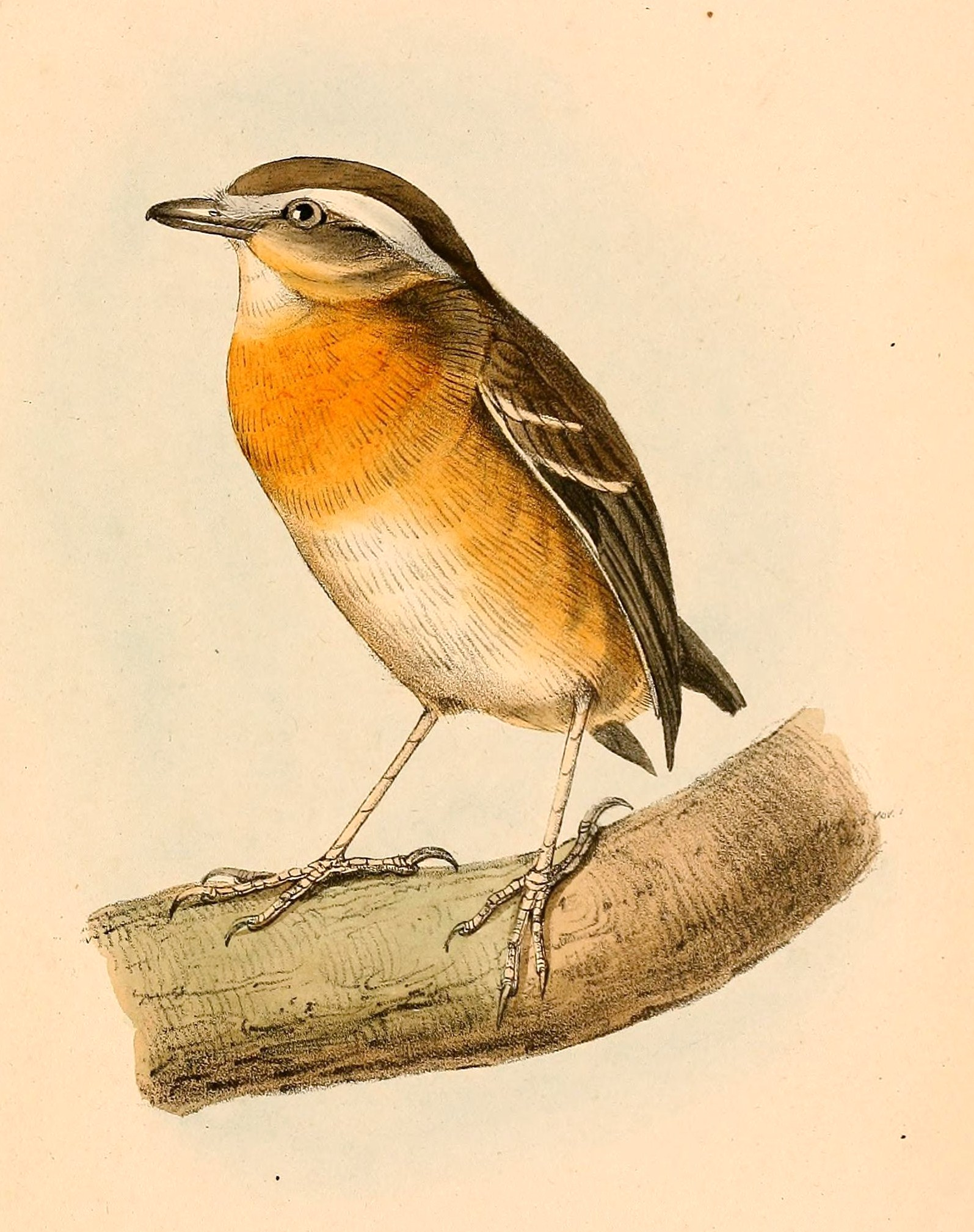 « Conopophaga ruficeps » = Conopophaga melanops perspicillata (Subspecies of Black-cheeked Gnateater) - female